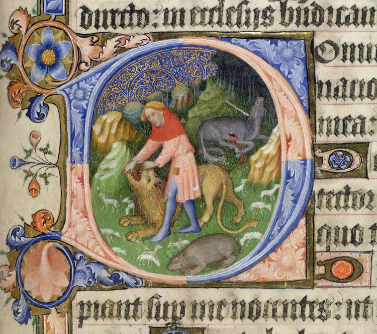 Illuminated initial showing David slaying the lion, with the bear and a unicorn already dead nearby; from BL Add MS 42131, f. 95r (the "Bedford Psalter and Hours"). Held and digitised by the British Library.